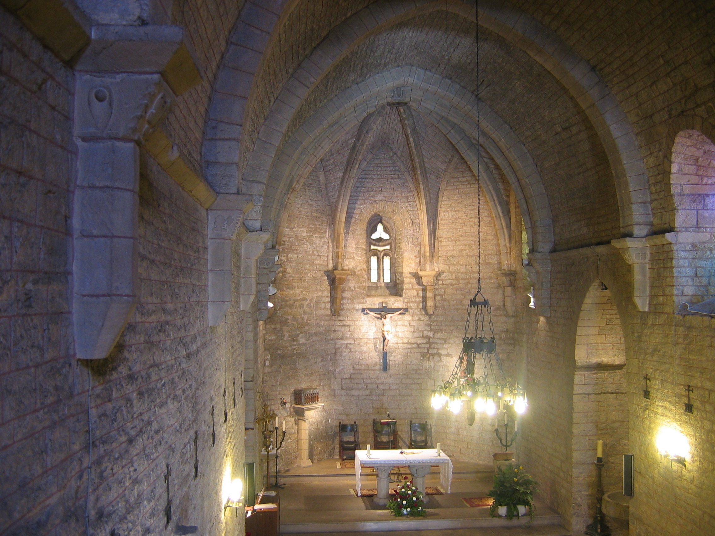 Church Santa Eufemia in Tiebas (inside)